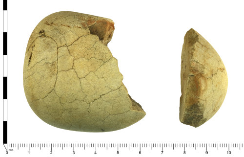 POT BOILER Unique ID: SWYOR-1F6D48 Object type certainty: Probably Workflow status: Awaiting validation Find awaiting validation as at April 2018 Two incomplete fire-cracked cobbles of unknown date; stones which have been subjected to high heat causing them to crack and break. Similar objects from the same farm have been recorded as pot boilers, but it is also possible that these stones were used to form hearths, probably for an industrial process. The stone is probably a fine grained sandstone. The two pieces do not join. Broad period: UNKNOWN Period from: IRON AGE Period to: POST MEDIEVAL Date from: Circa 800 BC Date to: Circa AD 1800 Discovery dates Date(s) of discovery: Sunday 13th November 2016 Location Four figure Latitude: 53.64547952 Four figure longitude: -1.01820897 1:25K map: SE6517 1:10K map: SE61NE Method of discovery: Fieldwalking General land use: Cultivated land